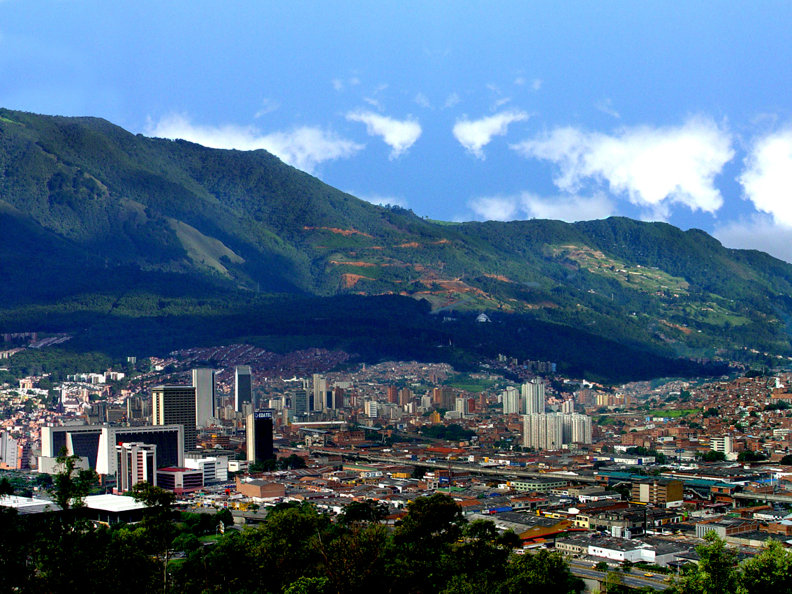 Fake of Medellín "taken" by the uploader on October 23rd., 2006